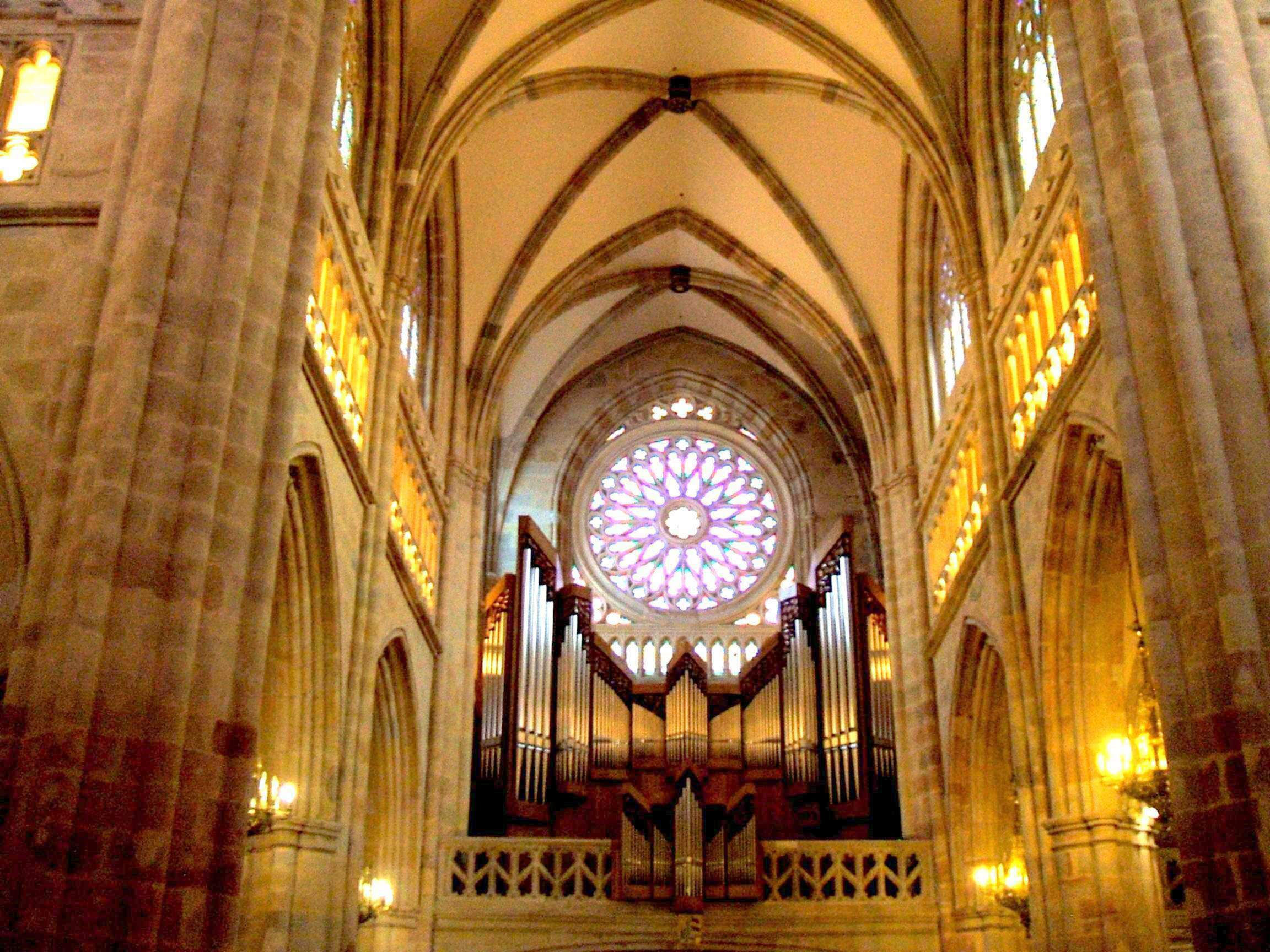 Nave central de la Catedral de Santiago de Bilbao, Euskadi